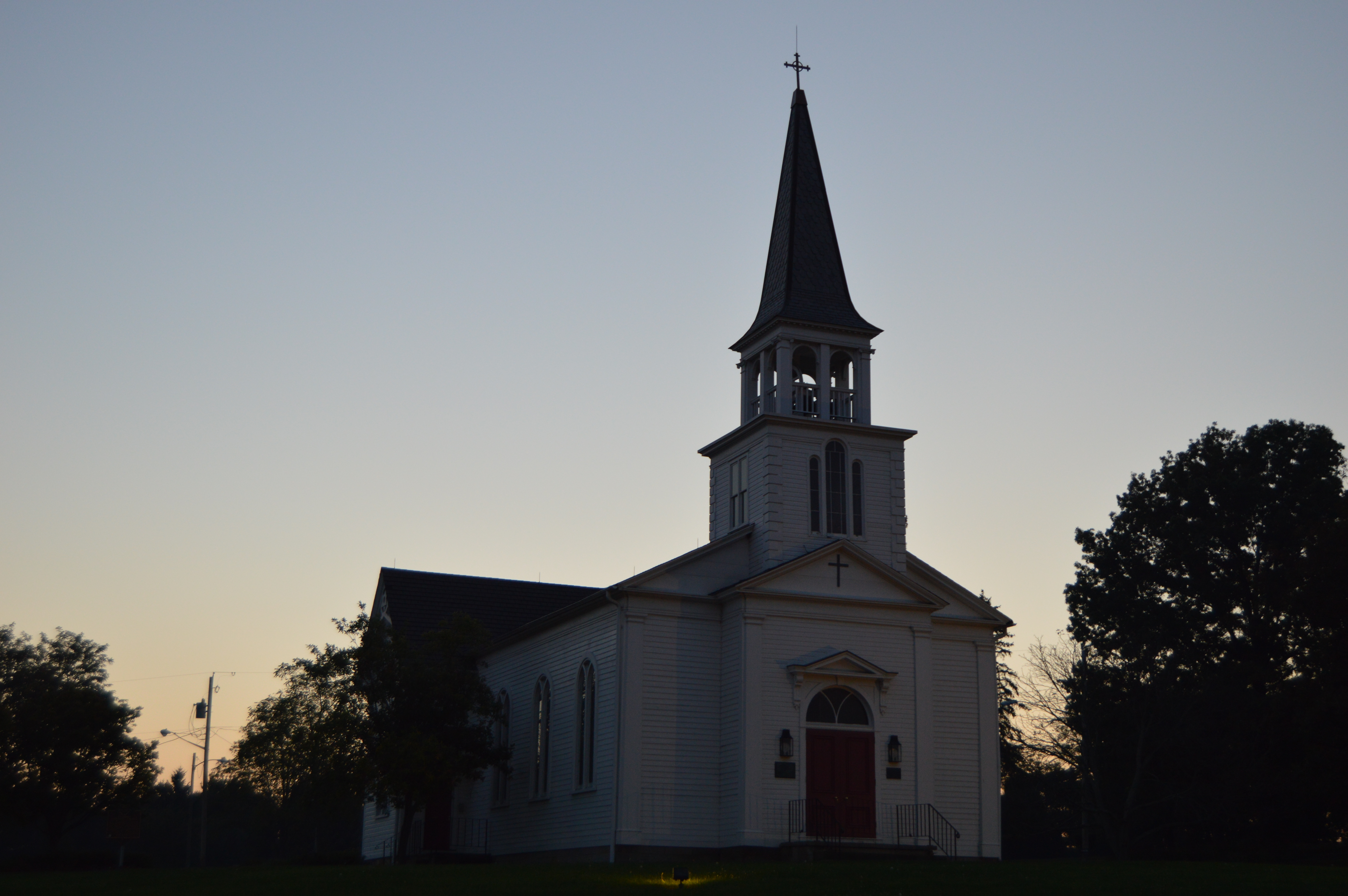 Front and southern side of St. James Episcopal Church, located off U.S. Route 224 in the Boardman Park in Boardman Township, Mahoning County, Ohio, United States. Built in 1828 and relocated to this location in the 1970s, it is listed on the National Register of Historic Places.